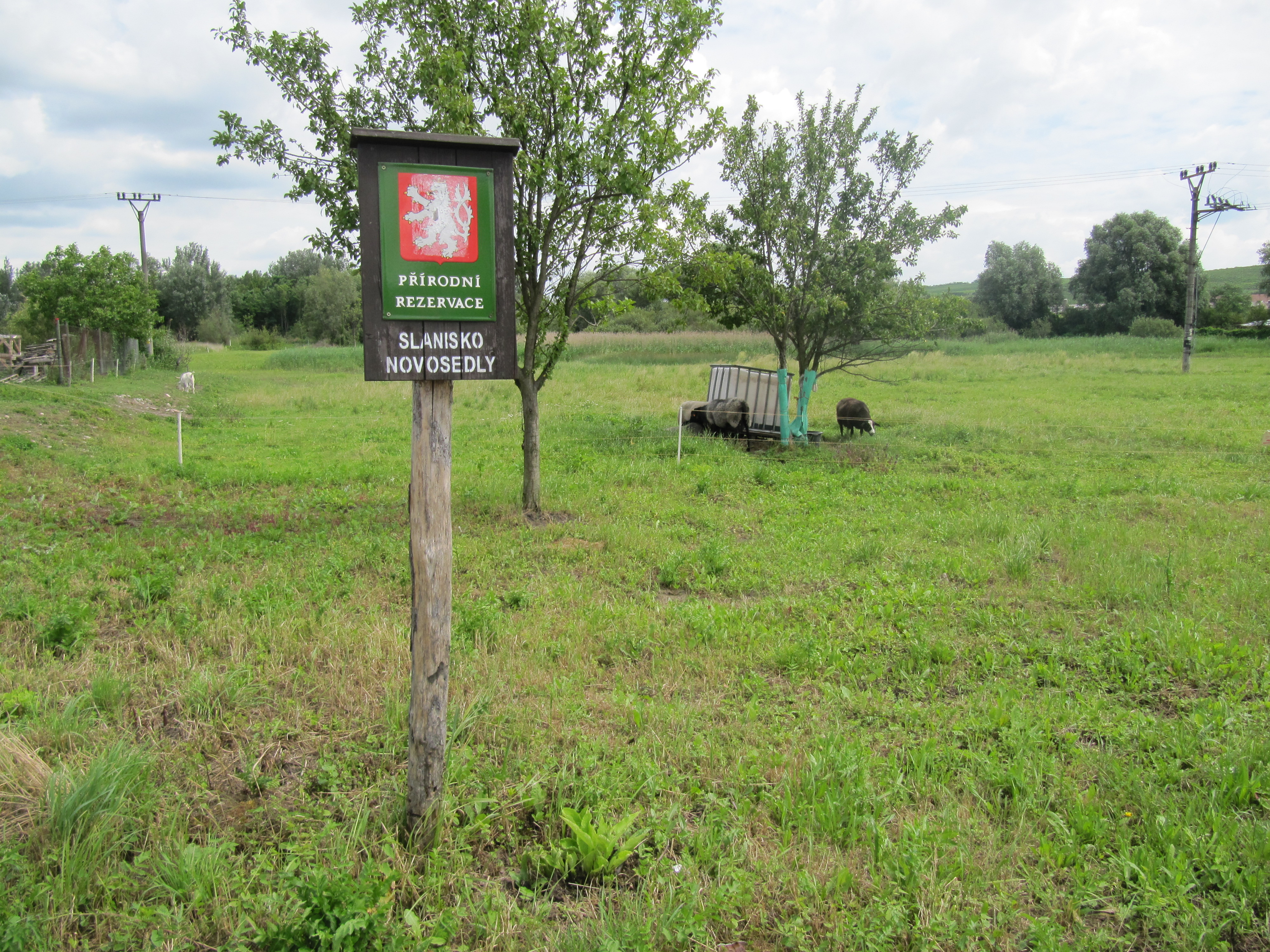 Novosedly in Břeclav District, Czech Republic. Nature Reserve Slanisko (Salt marsh) Novosedly.